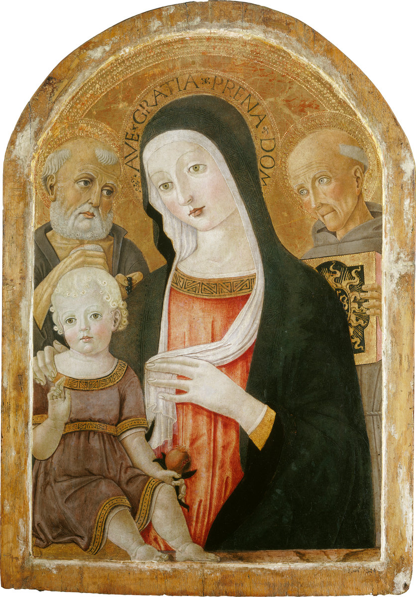 Benvenuto di Giovanni, Madonna and Child with Saint Jerome and Saint Bernardino of Siena, Italian, 1436 - before 1517, c. 1480/1485, tempera on panel, Widener Collection